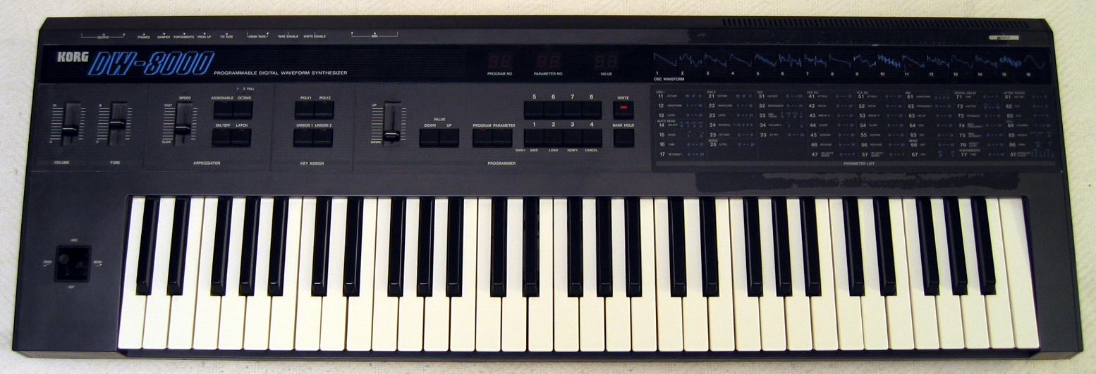 A picture of a Korg DW-8000 synthesizer.